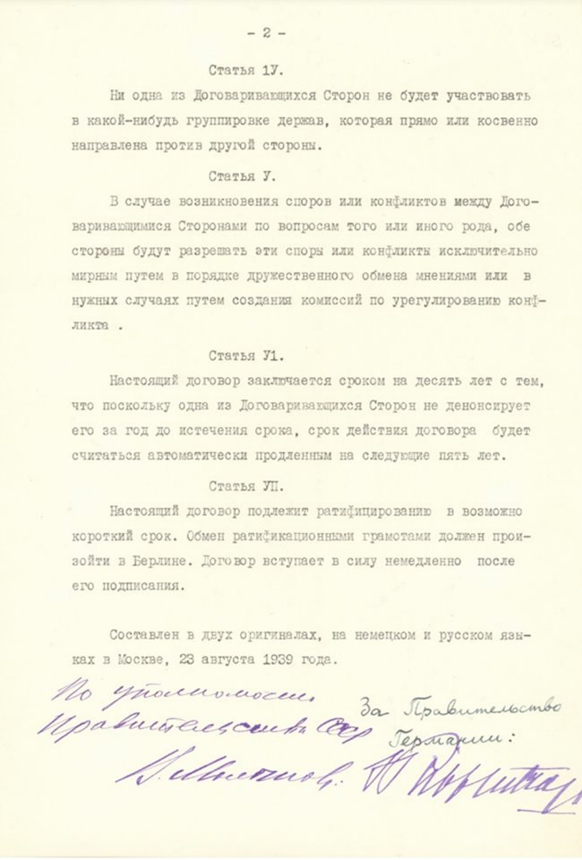 Molotov–Ribbentrop Pact 2d Page in Russian